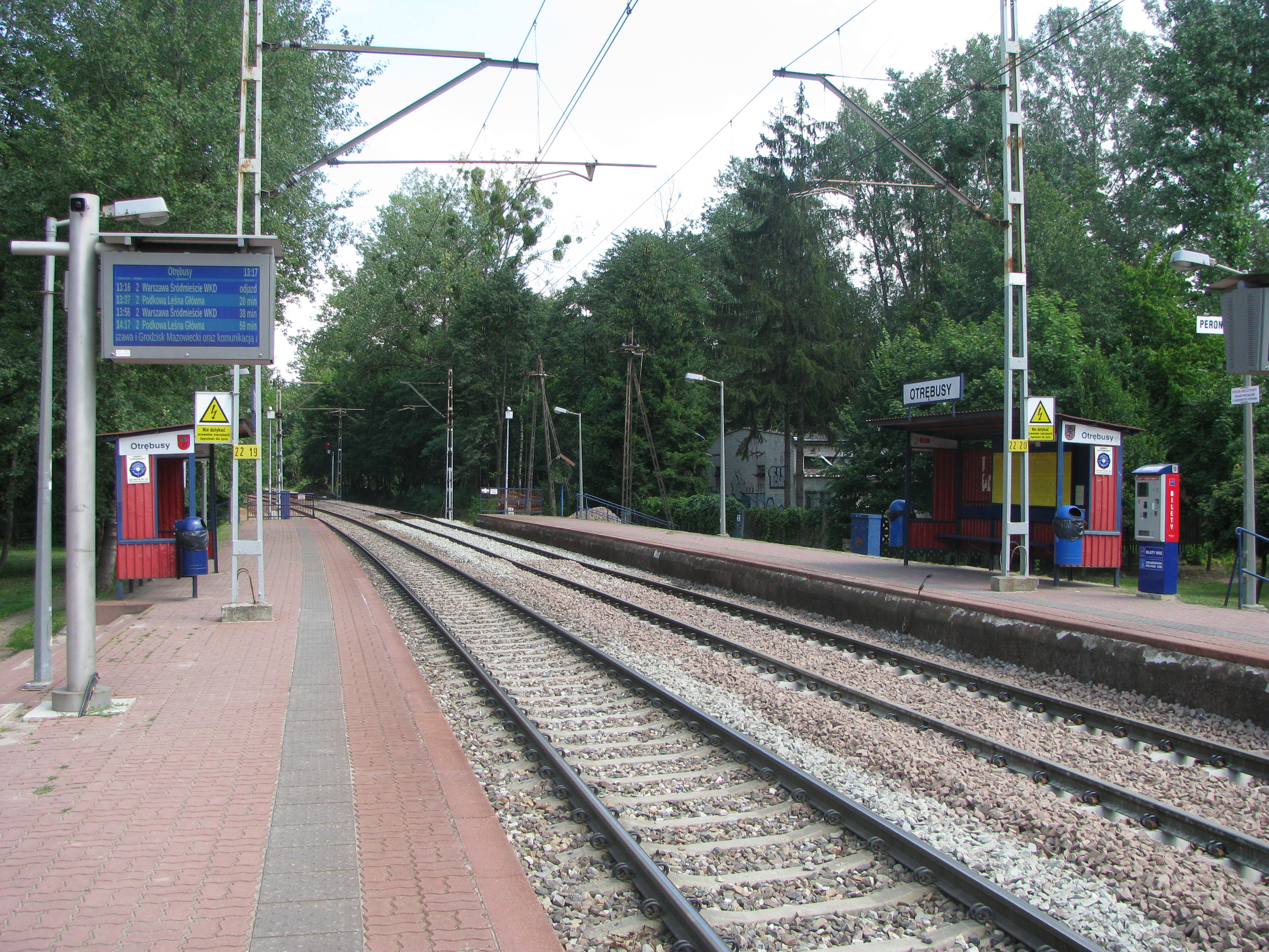 WKD train stop in Otrebusy